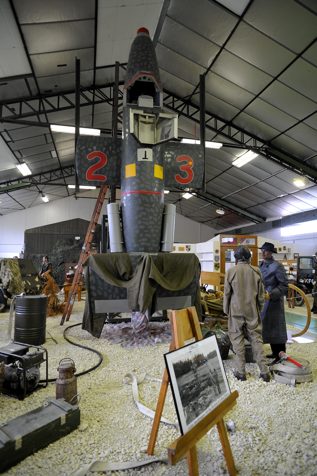 Bachem Ba 349 „Natter“ M23, replica at the „Militärgeschichtliche Sammlung“ at Lager Heuberg in Stetten am kalten Markt; Baden-Württemberg, Germany. The pilot Lothar Sieber gets final instructions from the engineer Erich Bachem.